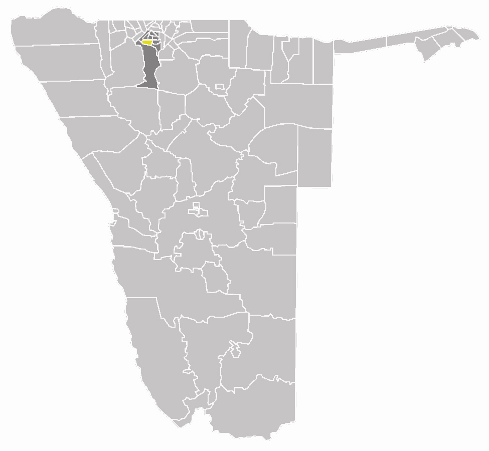 map of the Ompundja constituency within the Oshana region, Namibia